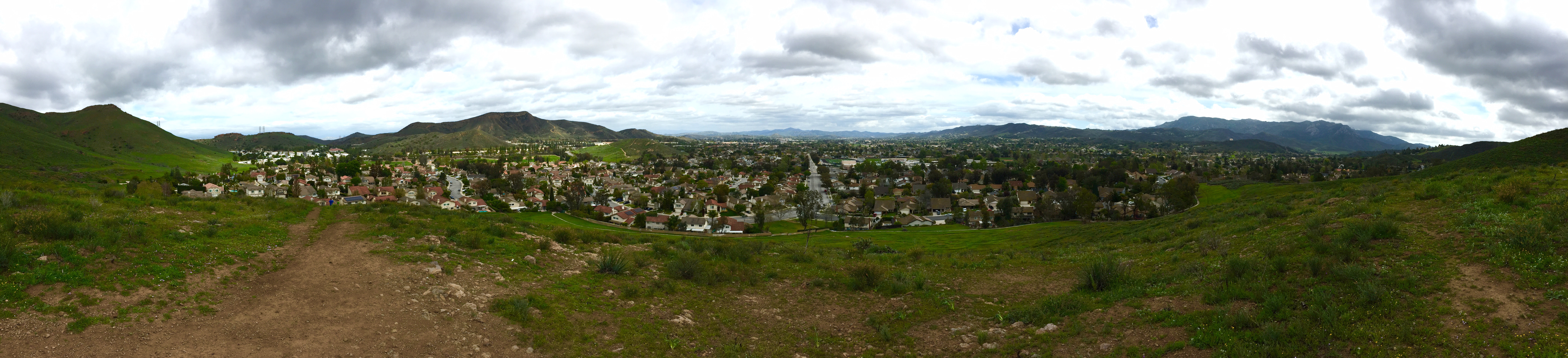 Panoramic view of Newbury Park and the Conejo Valley from Alta Vista Open Space.